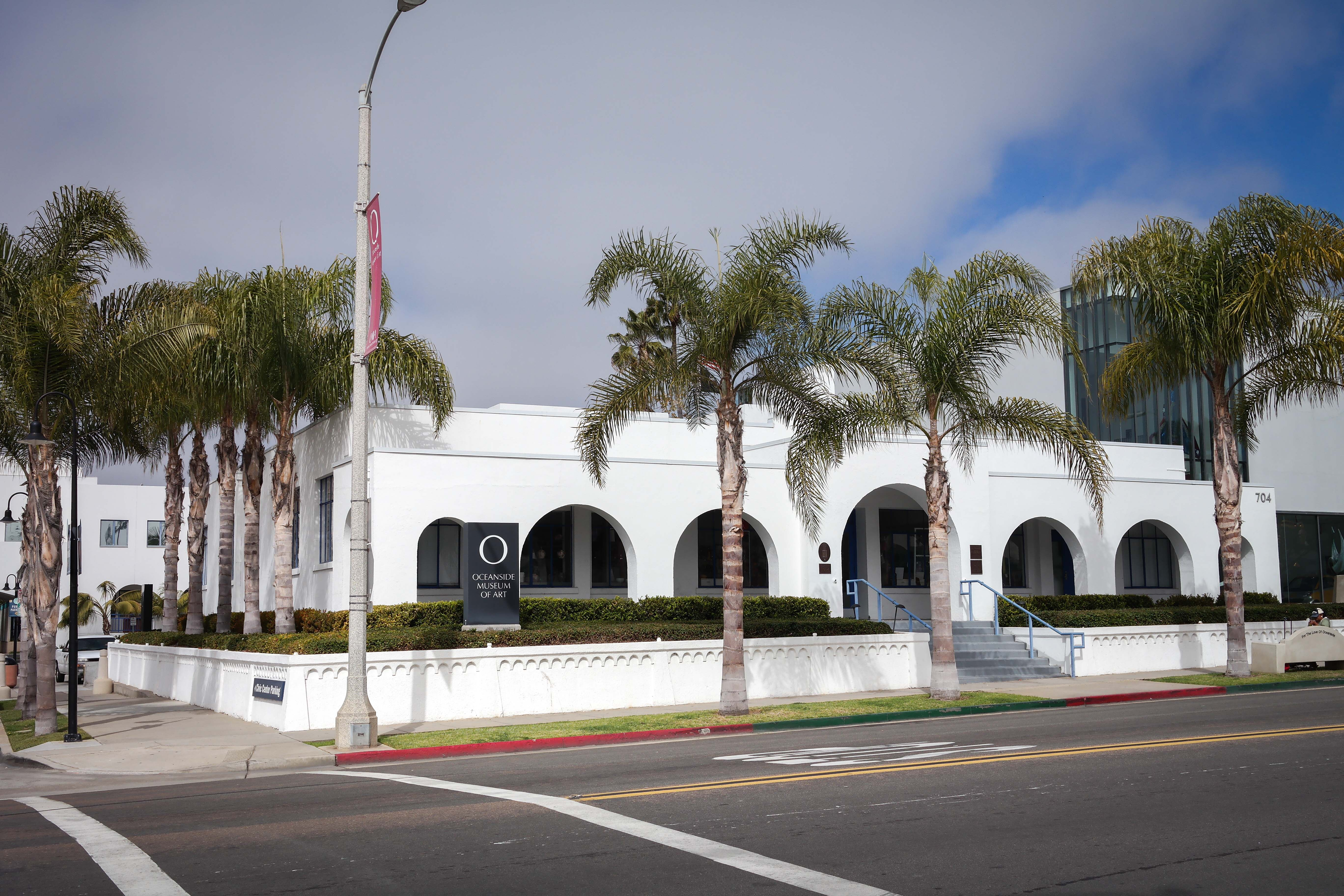 A view of the historic city hall in Oceanside, California, now an art museum